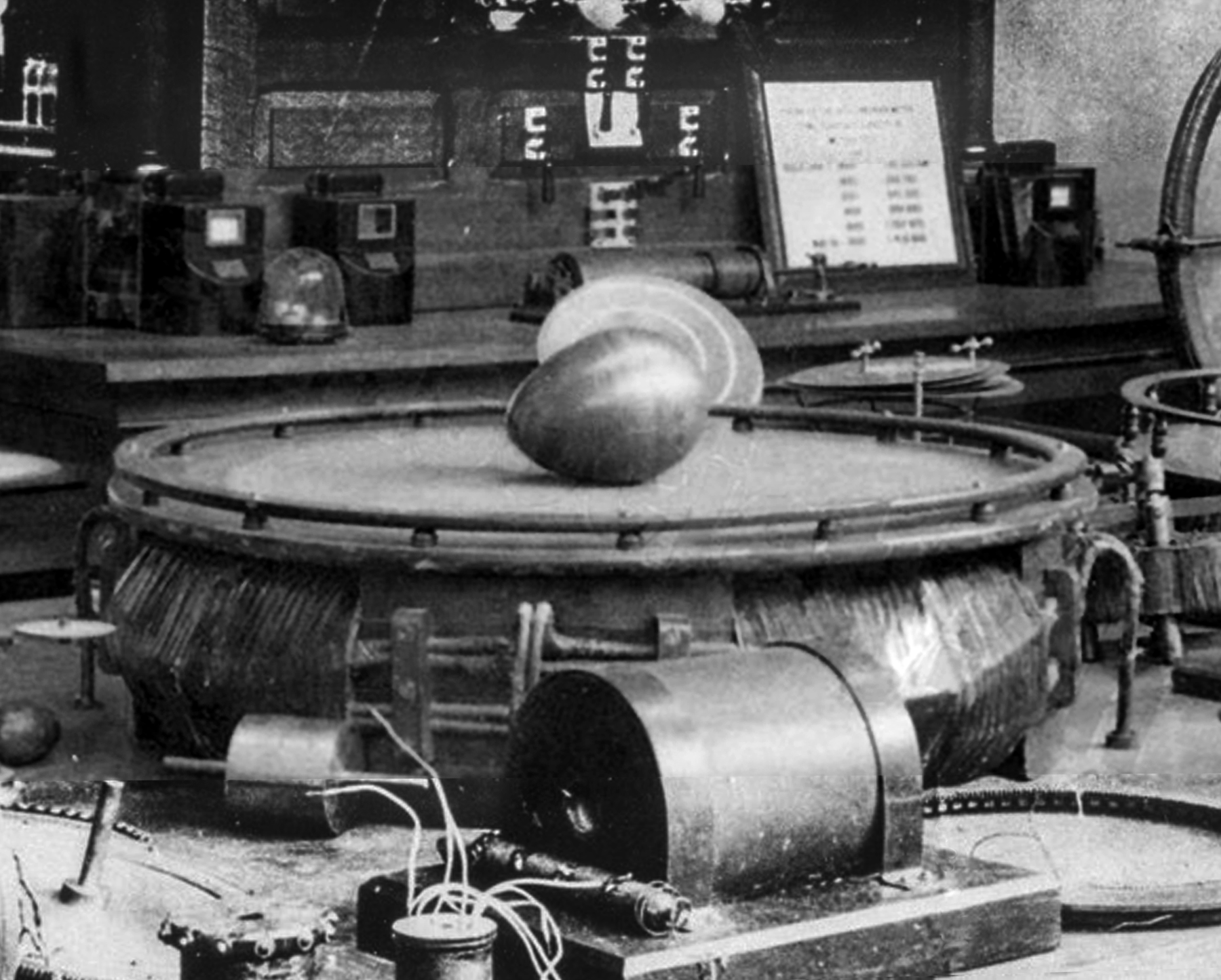 Nikola Tesla's "Egg of Columbus", a device used by the inventor to demonstrate the rotating magnetic field that drove his new alternating current induction motor by using that magnetic field to spin a copper egg on end.